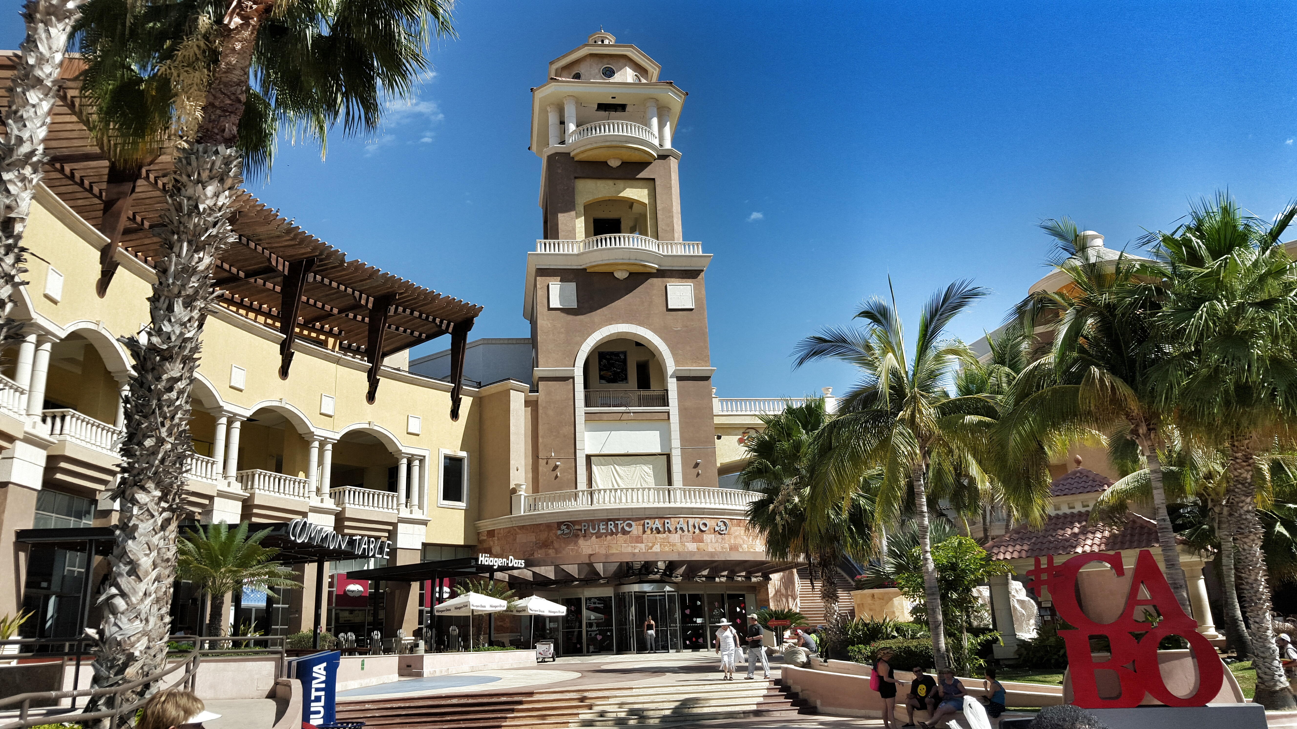 Puerto Pareaiso Mall Facade in Cabo San Lucas - Baja California Sur, Mexico